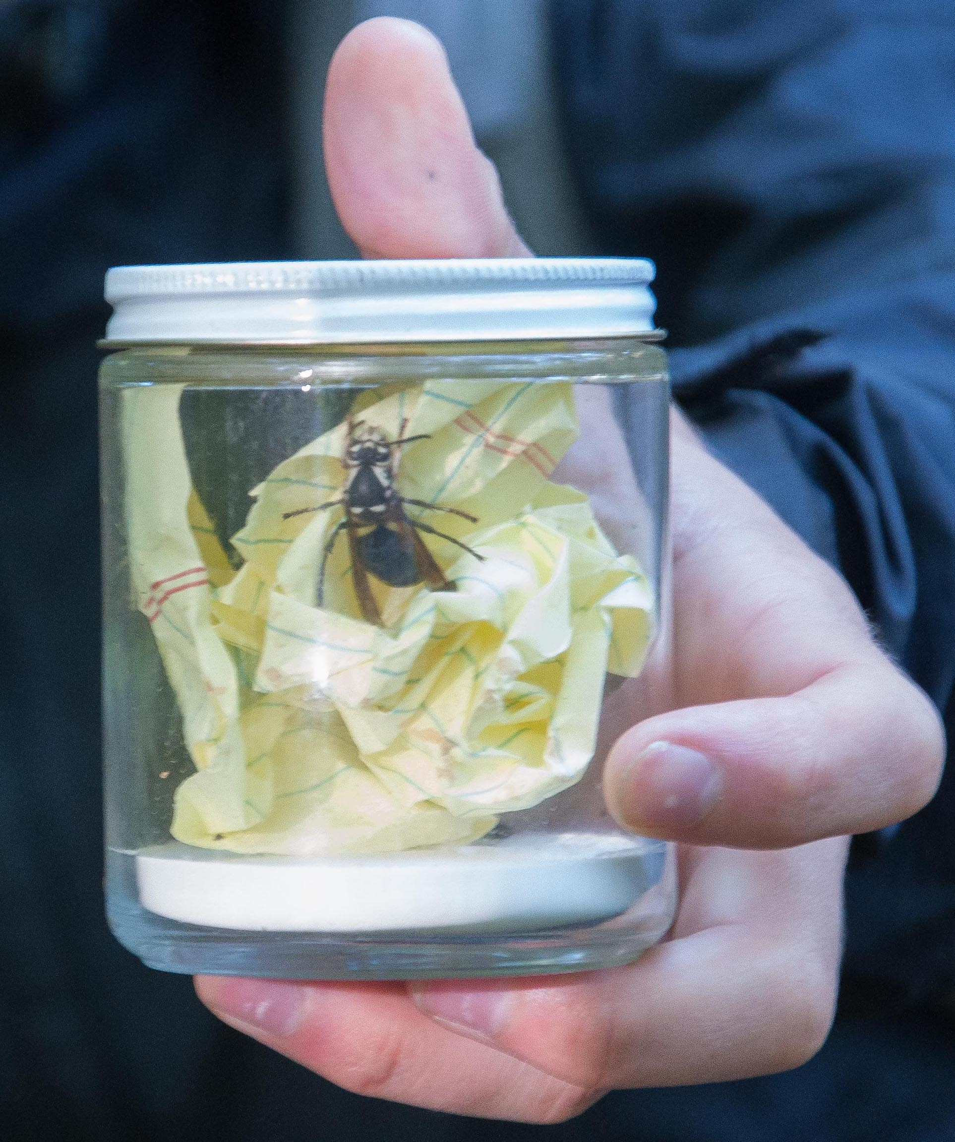 Ent 432 Student with wasp in a kill jar